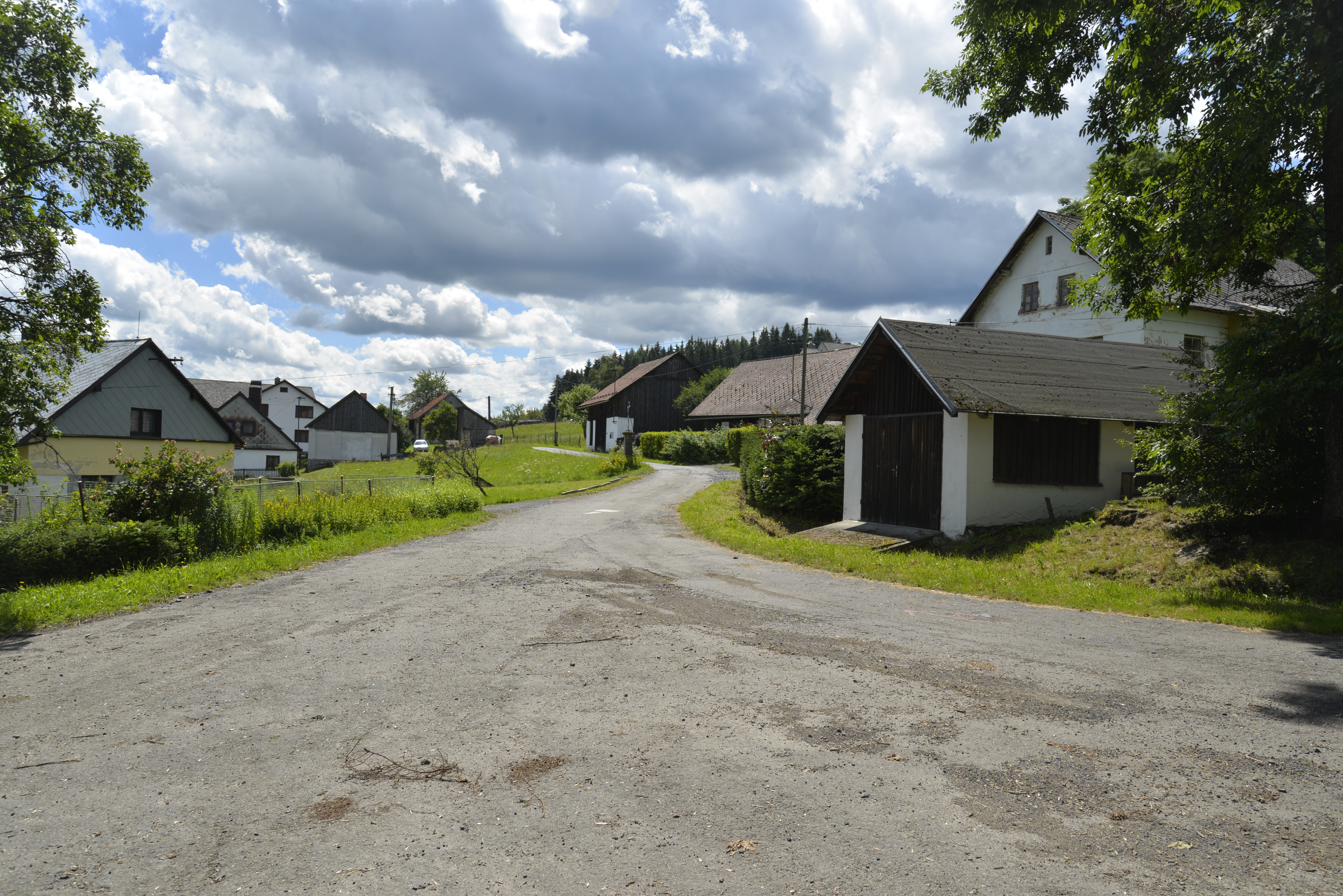 Častonice - small village, part of Hlavňovice in Klatovy District